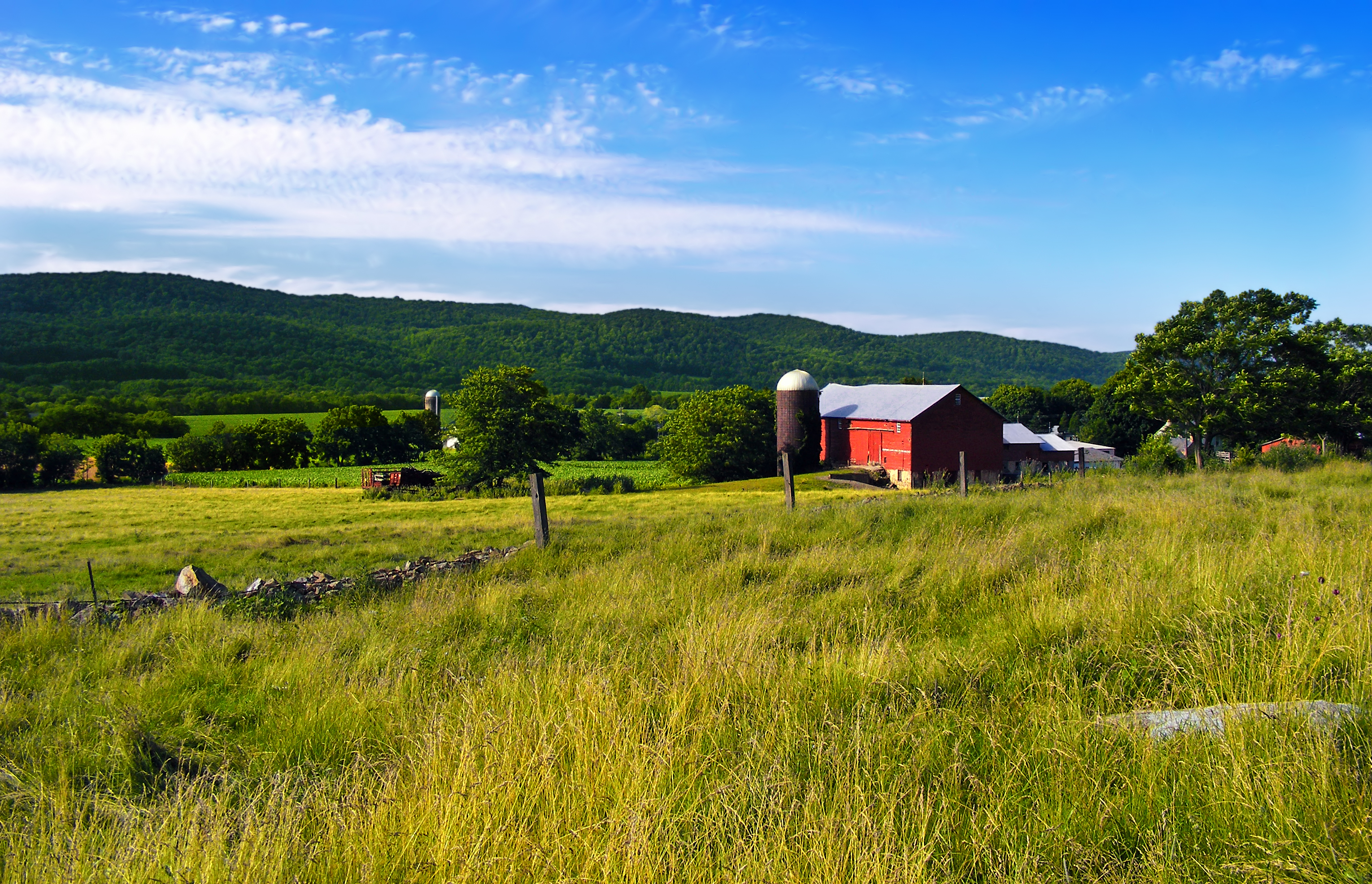 Farmstead, Franklin Township, Warren County.